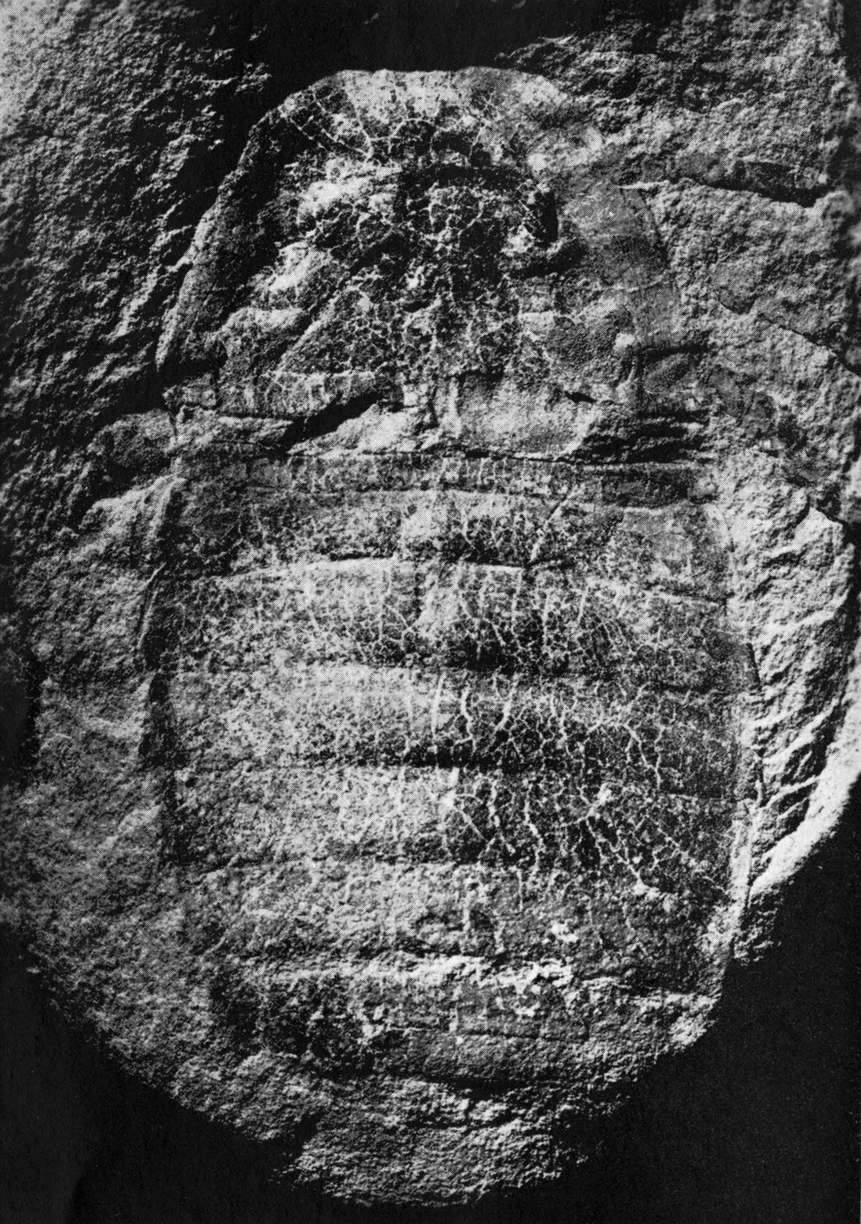 Carapace of Adelophthalmus mazonensis (Meek and Worthen) from the Herdina collection (H-2), showing the outline of the ventral shield; × 2.8. The scales on the ventral shield point outward